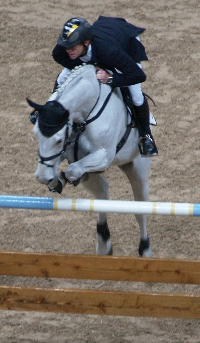 Marcus Ehning with Gitania, FEI-World Cup Final 2007, Las Vegas, NV, USA